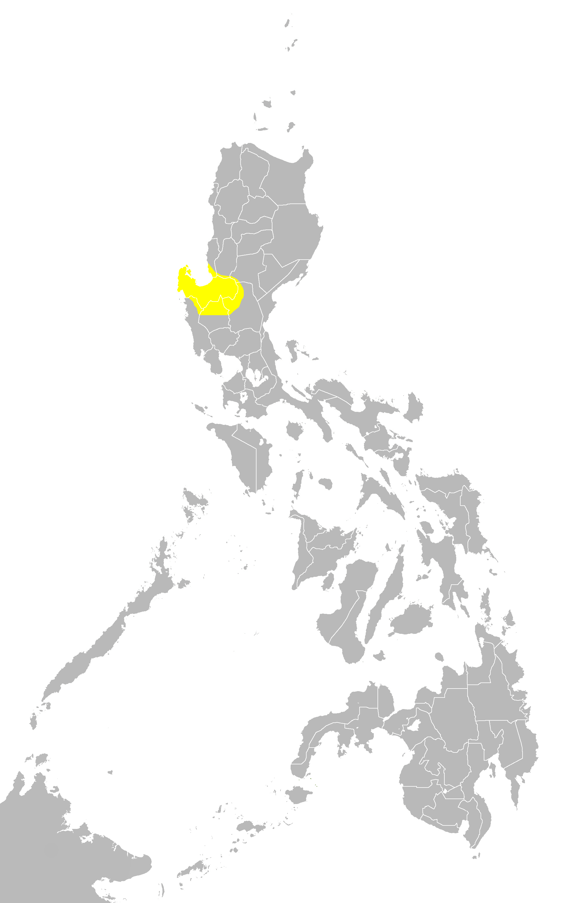 Maximum extent of the Pangasinan language. Pangasinan: Sankabalgan ya anggaan na salitan Panggasinan. Kapampangan: Pekamaragul a kayanganan ning amanung Panggasinan.